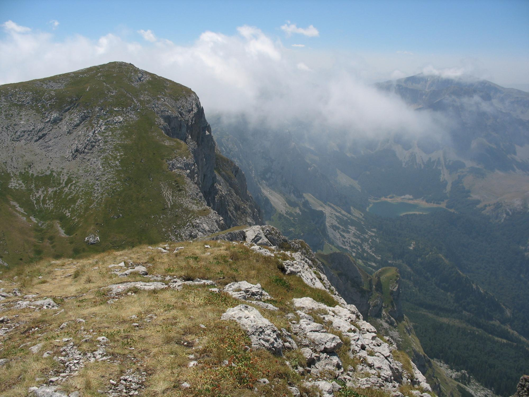 Crnogorski Maglić (2388 m) in Montenegro, from Bosanski Maglić)